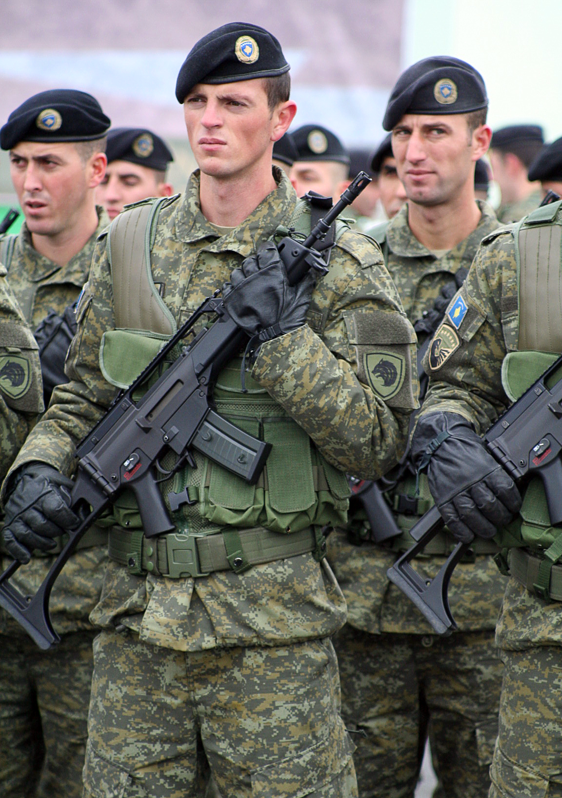 Celebration in Adem Jashari Barrack in honor of the day of establishment of the KSF (Kosovo Army). 27 November the official day of establishment of the KSF.